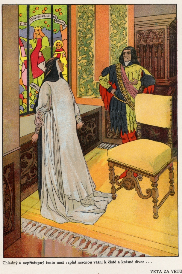 Illustration by Czech painter Artuš Scheiner for Shakespeare’s Measure for Measure Česky: Ilustrace Artuše Scheinera k Shakespearově hře Půjčka za oplátku